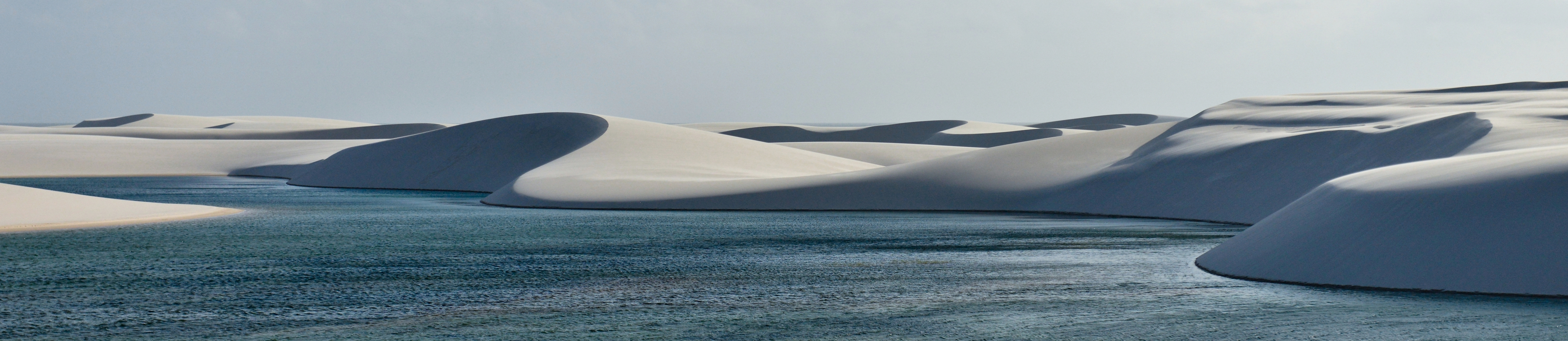 White dunes and lagoons of the Lençóis Maranhenses National Park.